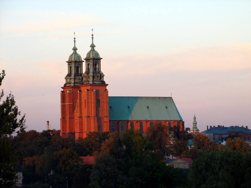 Gniezno. View of Cathedral Basilica of the Assumption of the Blessed Virgin Mary and St. Adalbert. On the right side- church under the invocation of St. John the Baptist